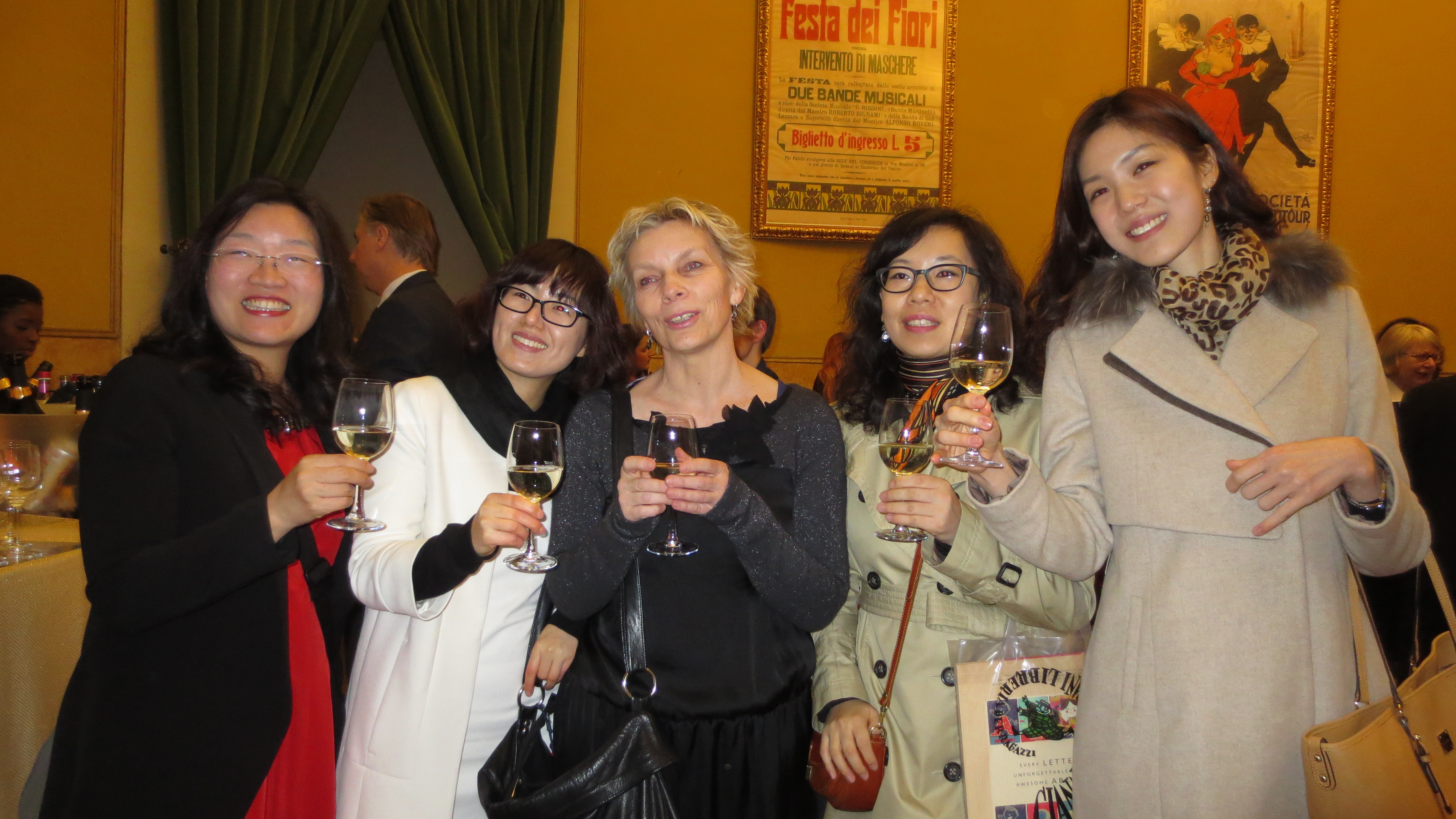 26th March 2013 - Iwona Chmielewska (3rd from left), Jiwone Lee (1st from left) and and staff of the publishing house Changbi at the Teatro Communale in Bologne at the Awards Ceremony for the Bologna Ragazzi Award 2013